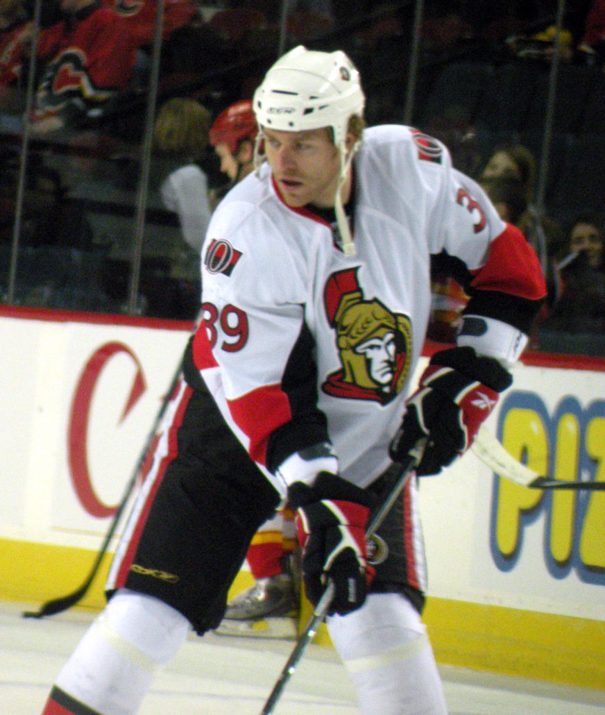 Ottawa Senators defenceman Matt Carkner prior to a National Hockey League game against the Calgary Flames.